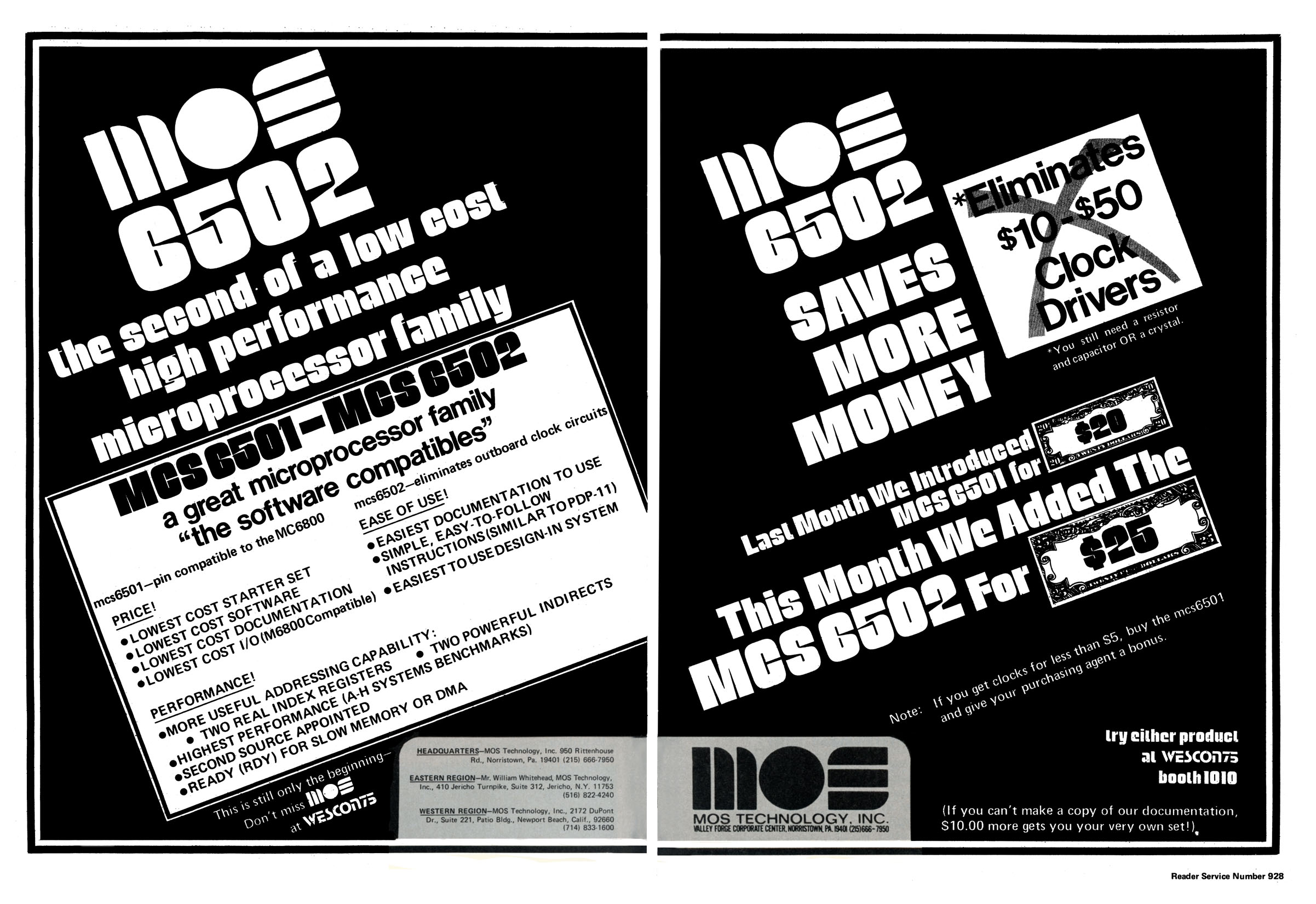 Introductory advertisement offering the MOS 6501 and MOS 6502 microprocessors for sale at the Western Electronic Show and Convention (WESCON), San Francisco, September 16-19, 1975. The ad appeared in several magazines, this one in the September 1975 issues of IEEE Computer (pages 38-39).